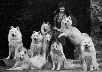 Одна из первых фотографий самоедов